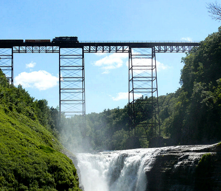 Upper Falls in Letchworth State Park, Portage Bridge in the background.